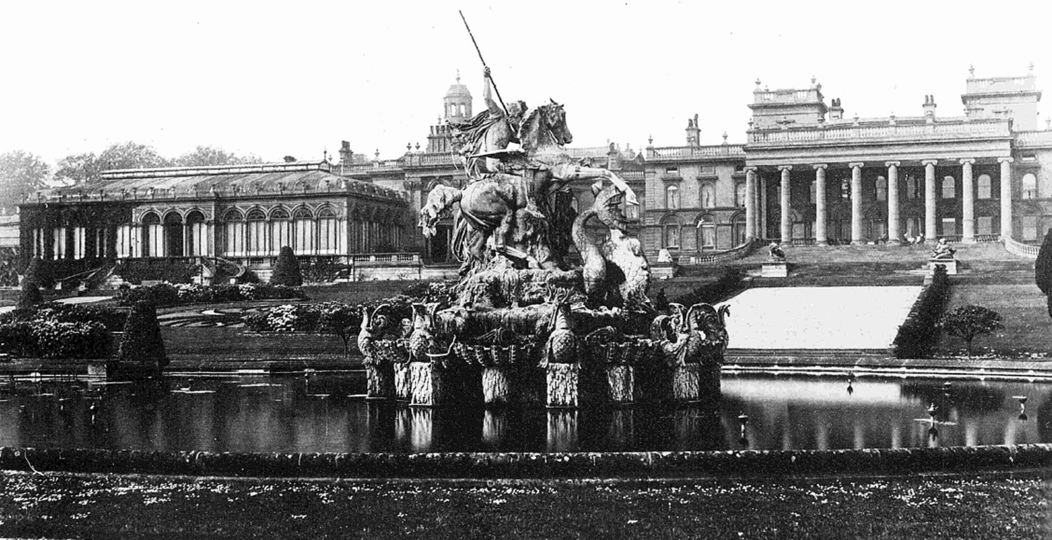 The Perseus and Andromeda Fountain in 1897 — of the Witley Court Gardens. Witley Court (mansion) in backround. Located in the 19th-century Witley Court landscape garden park, Worcestershire, England.